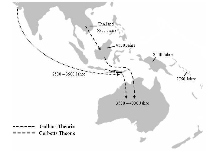 theoretical migration of the dingoes, includes the theories of corbett and gollan